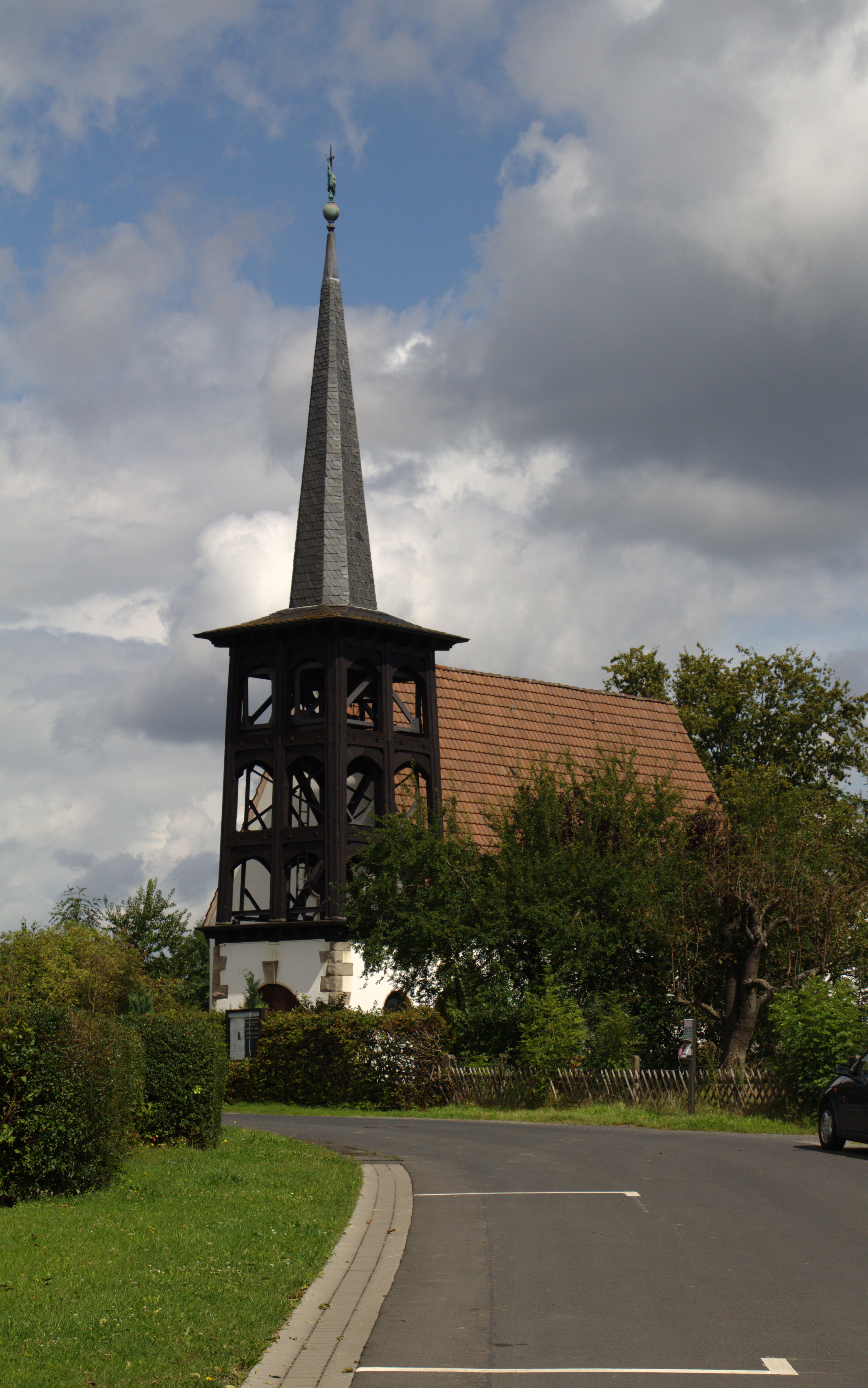 Protestant Church in Traetzhof, Fulda, Hesse, Germany